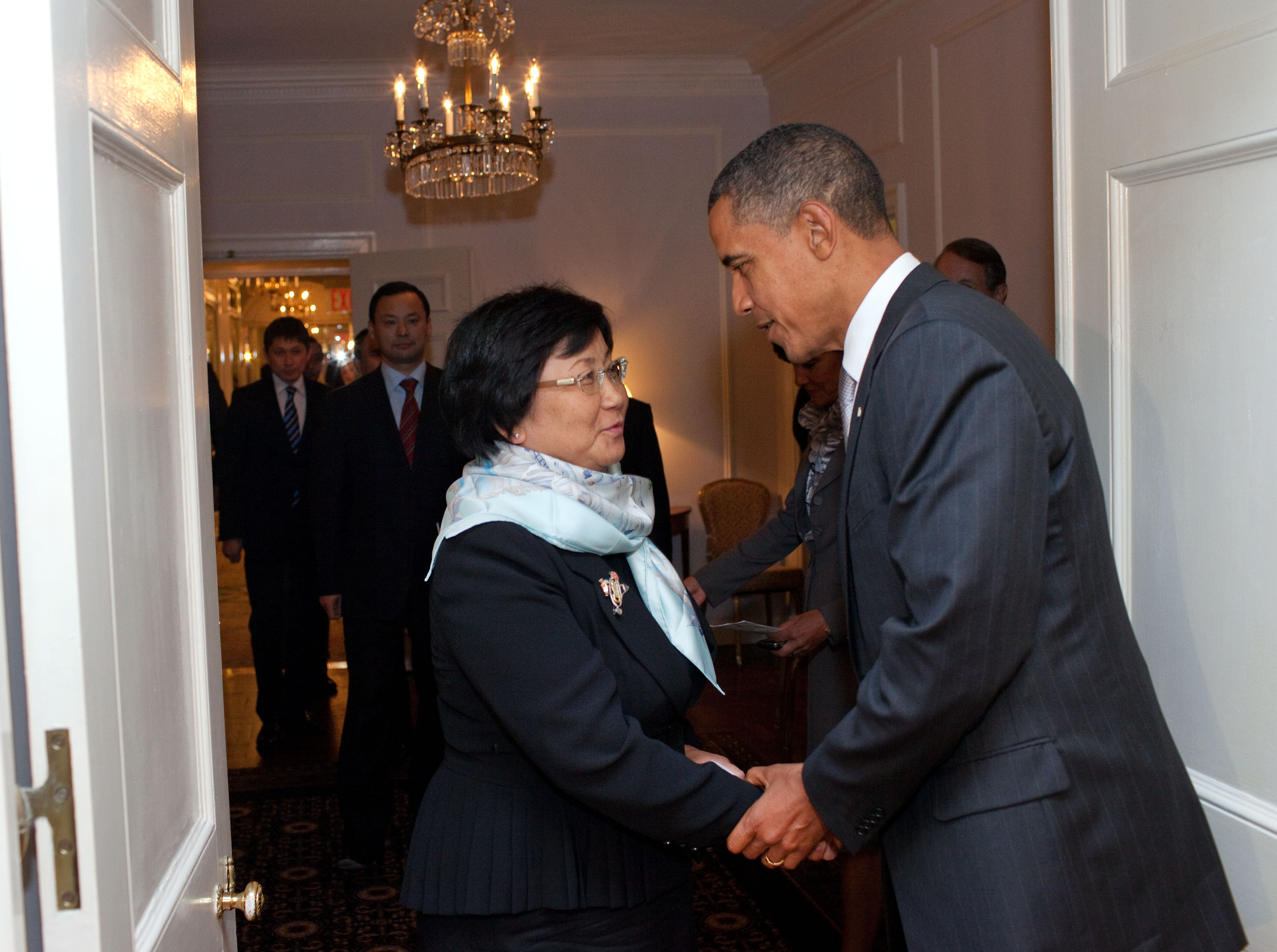 U.S. President Barack Obama greets Kyrgyzstan President Roza Otunbayeva before the start of their bilateral meeting in New York, New York., on September 24, 2010. [White House photo/ Public Domain]